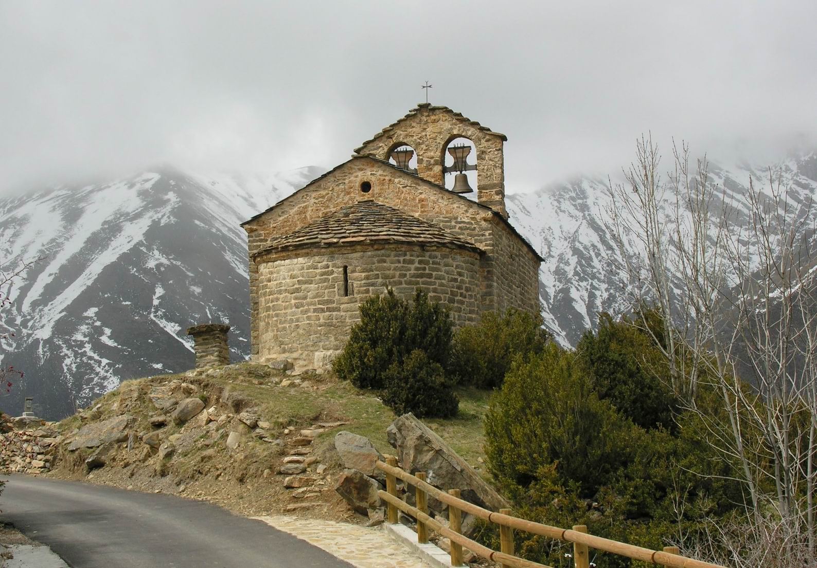 Hermitage of Sant Quirc de Durro, Vall de Boí, Spanish province of Lleida